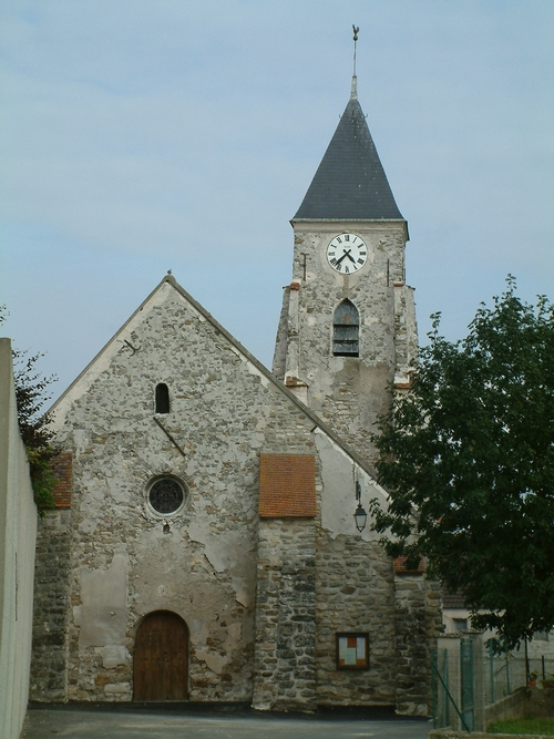 Saint Medard church of Trocy-en-Multien (Seine-et-Marne, France)